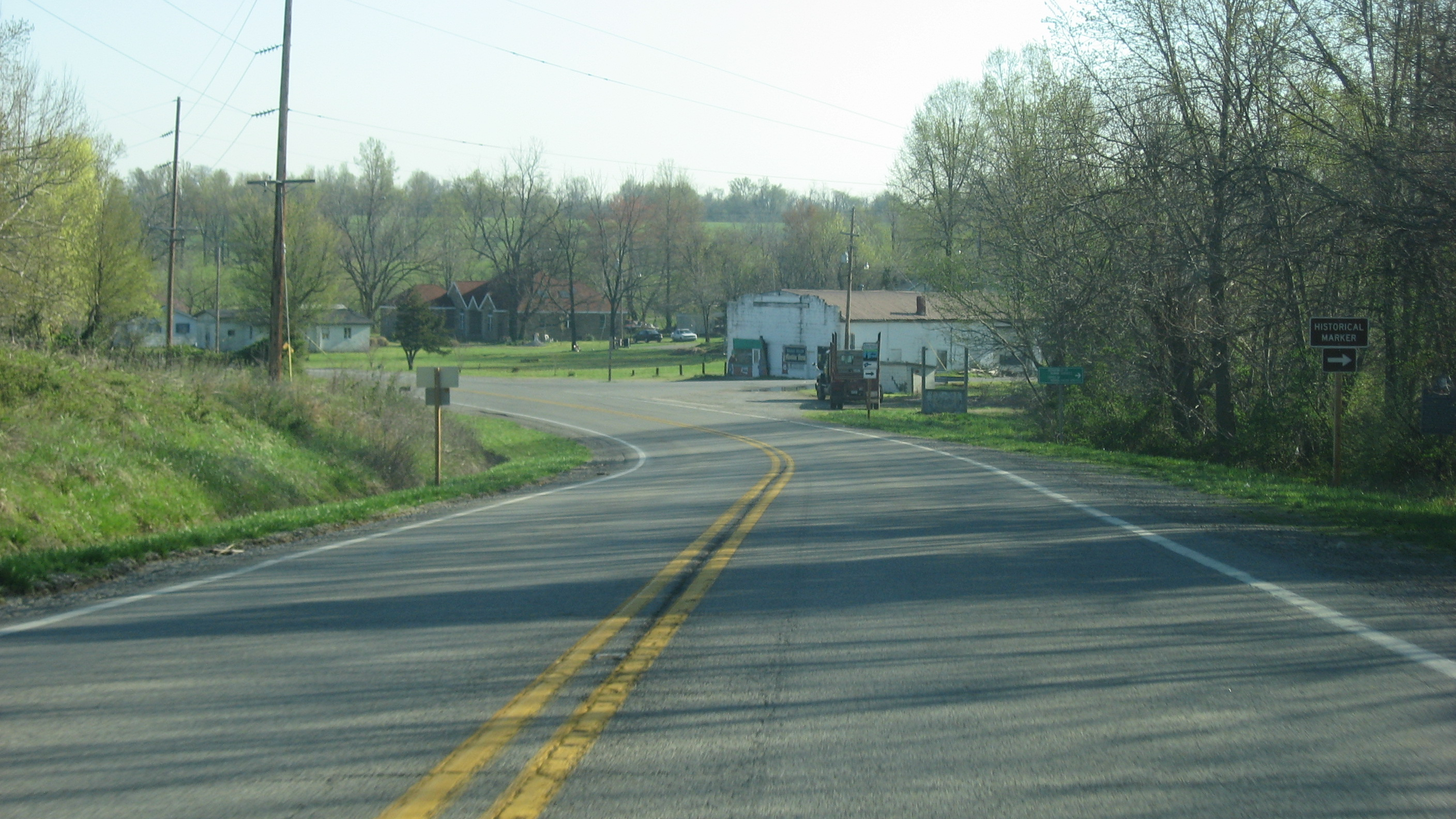 Looking northward along Illinois Route 37 on the edge of the village of New Grand Chain, Illinois, United States.